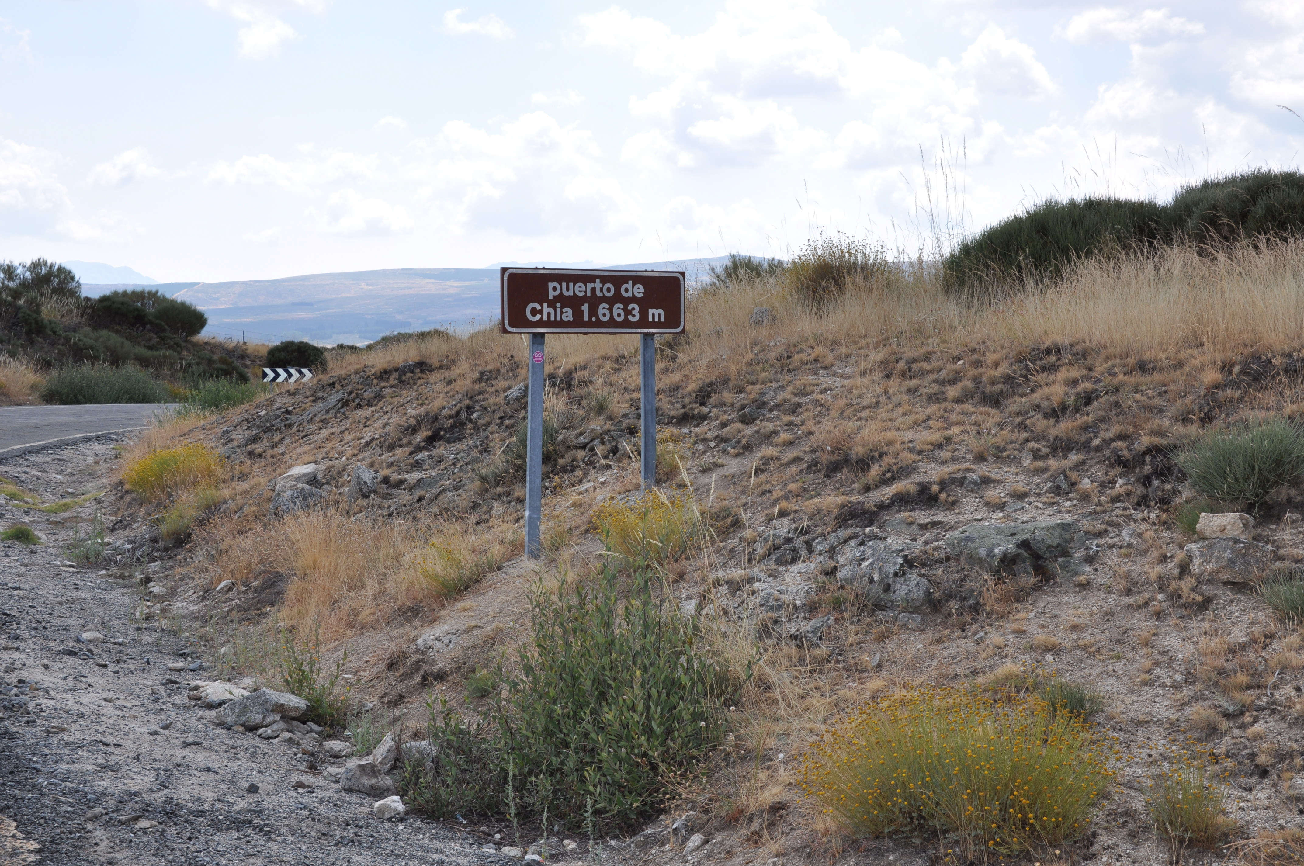 Road sign in the mountain pass of Chía, Ávila, Spain